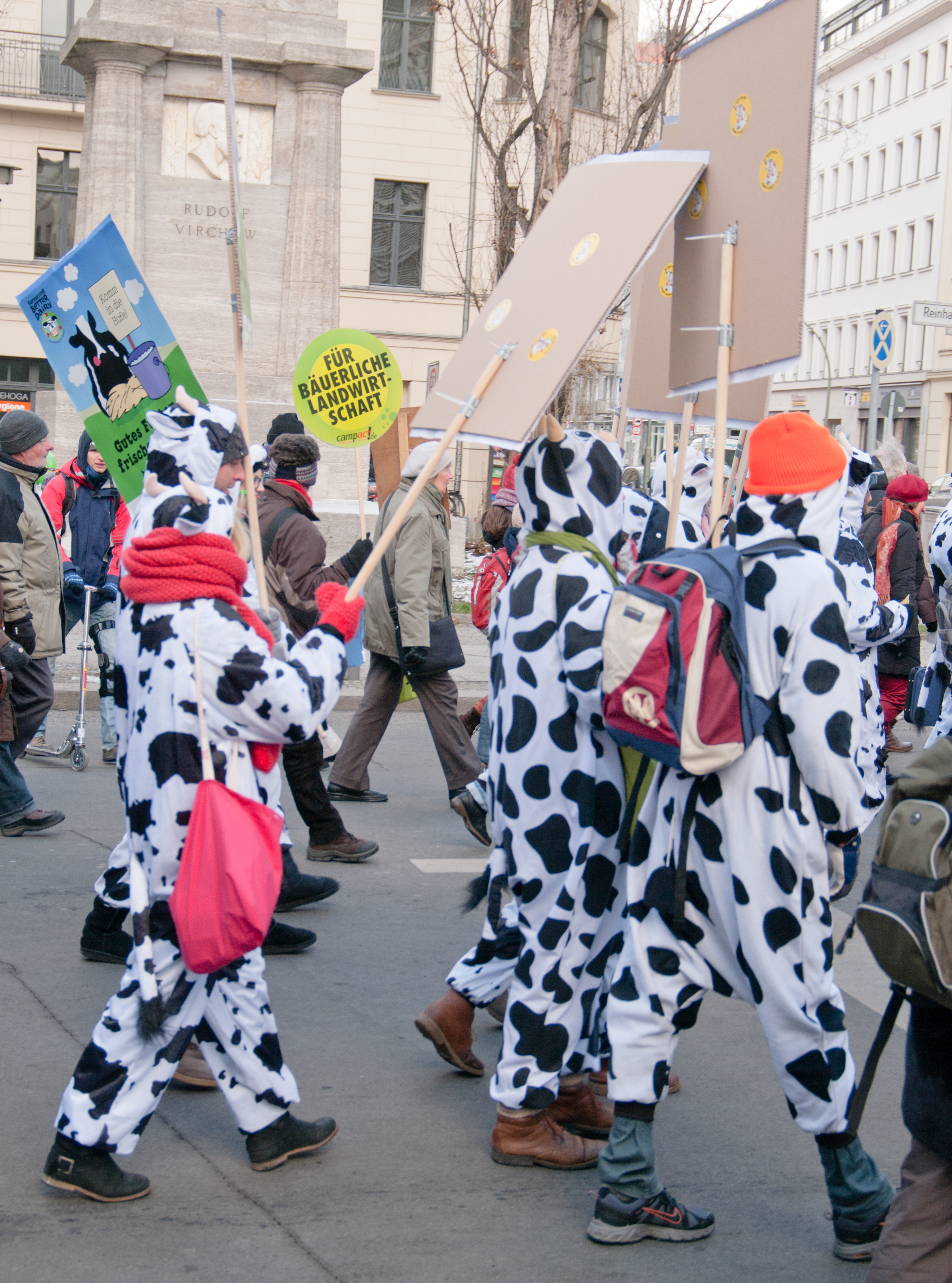 "Wir haben es satt!" (We are fed up) demonstration Berlin 2013